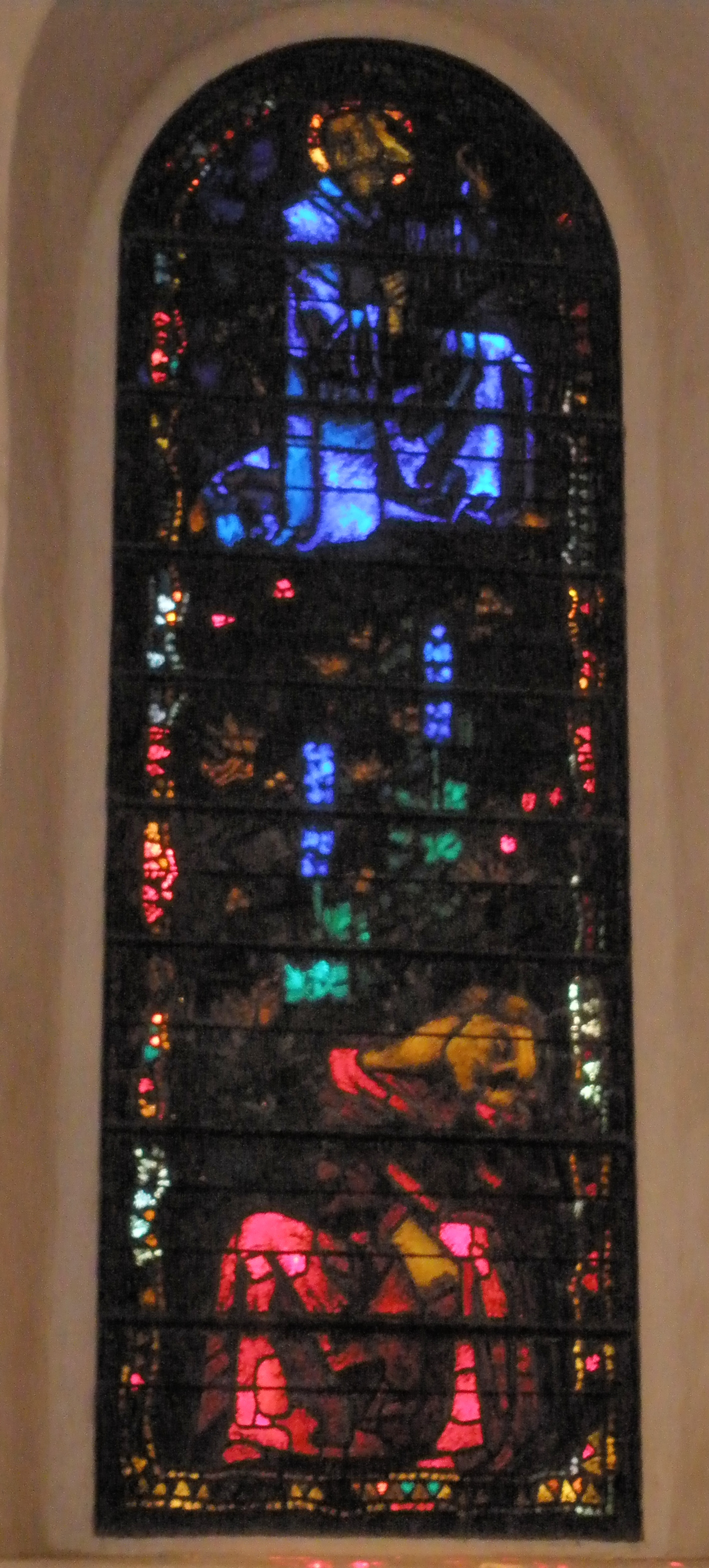 Window by Augusto Giacometti in the church of Adelboden showing Gethsemane